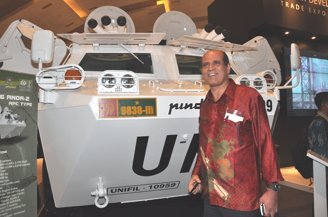 A trade expo delegate poses alongside a static display of the Pindad Anoa 2 APC in UNIFIL markings.